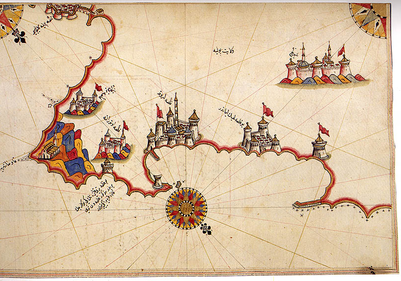 Otranto in Italy on the Kitab-ı Bahriye (Book of Navigation) of Piri Reis